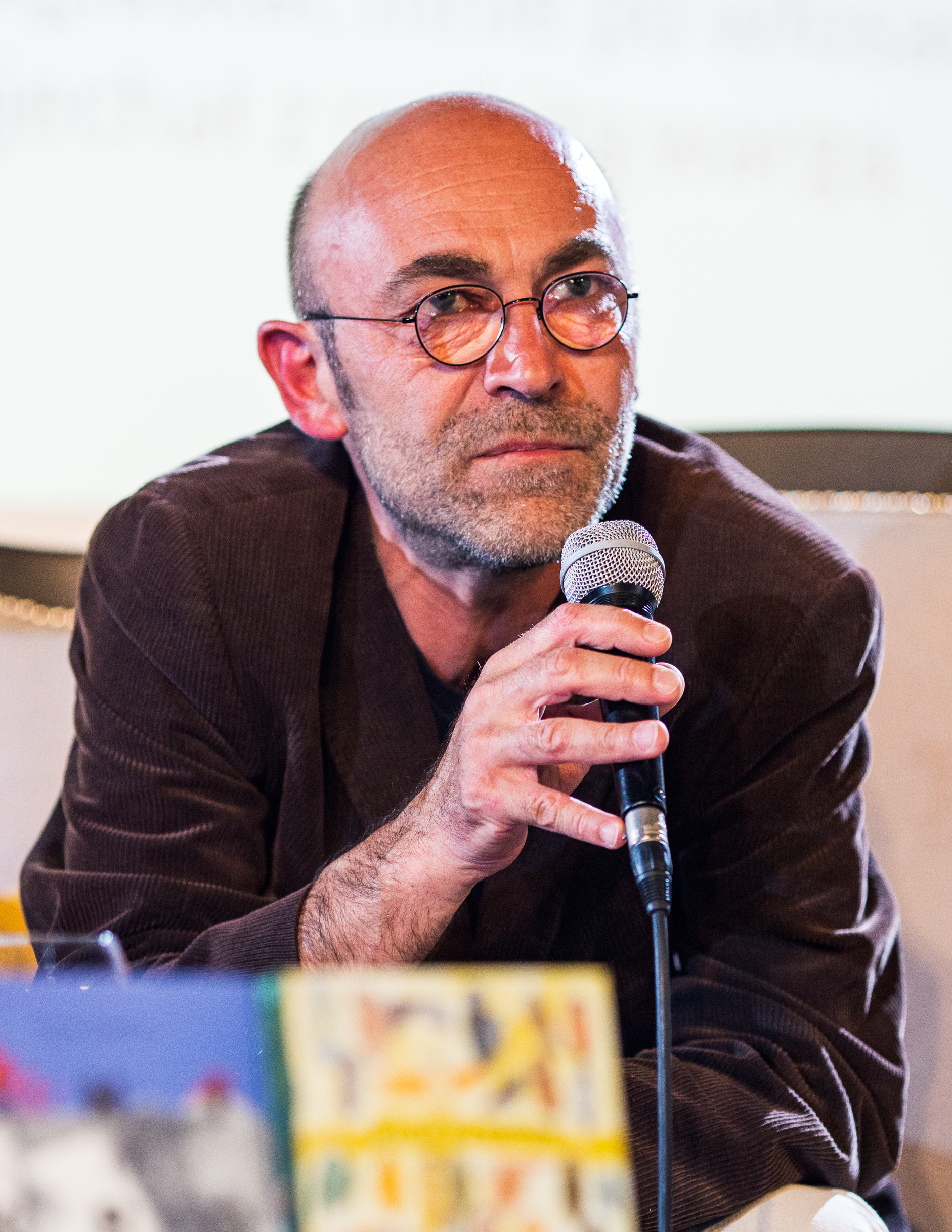 Filip Florian, Miesiąc Spotkań Autorskich 2019, Wrocław, Polska